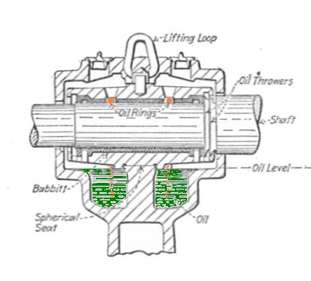 Fig. 149 Bearing with lubrication by ring oiler See other images from this source in 'Electrical Machinery'